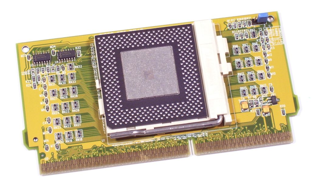 A generic Socket (Socket) PCB, manufactured in 1999 ("RISER 370 Rev.B"). A common gadget used to adapt Socket 370 microprocessors to Slot 1 motherboards. There is a Celeron microprocessor in the socket, but the cooling fan has been removed in this picture.